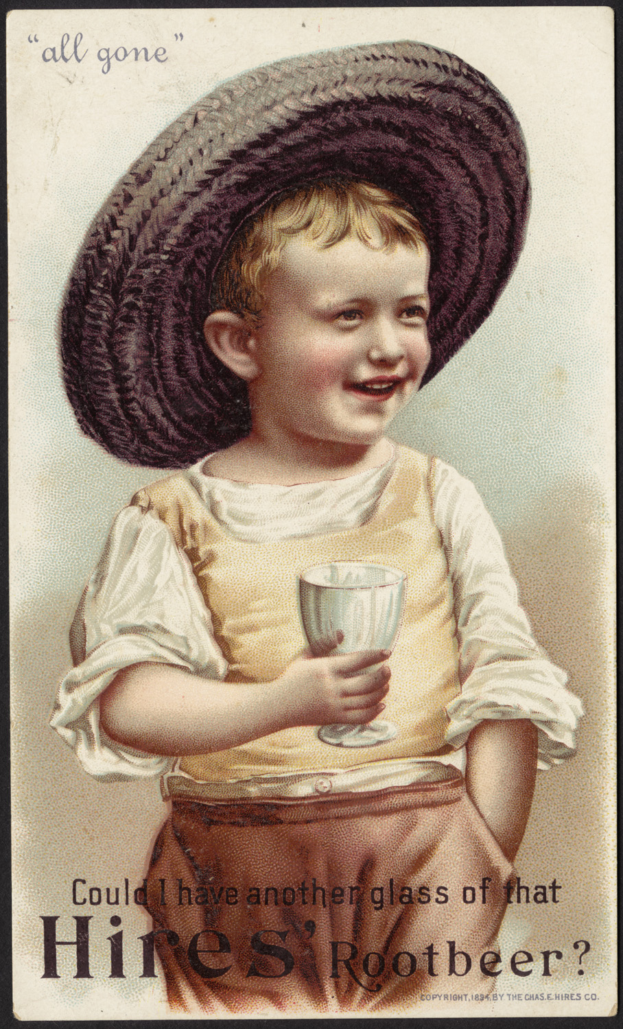 "All gone" Could I have another glass of that Hires' Rootbeer? [front] File name: 10_03_000551a Binder label: Beverages Title: "All gone" Could I have another glass of that Hires' Rootbeer? [front] Copyright date: 1894 Physical description: 1 print : chromolithograph ; 13 x 8 cm. Genre: Advertising cards Subject: Boys; Beverages Notes: Title from item. Statement of responsibility: The Charles E. Hires Co. Collection: 19th Century American Trade Cards Location: Print Department Rights: No known restrictions.